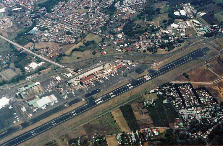 Aerial view of Costa Rica's Juan Santamaria International Airport (SJO), 2003. Picture taken with Minolta camera 35mm film and digitally transferred with electronic scanner by the author.